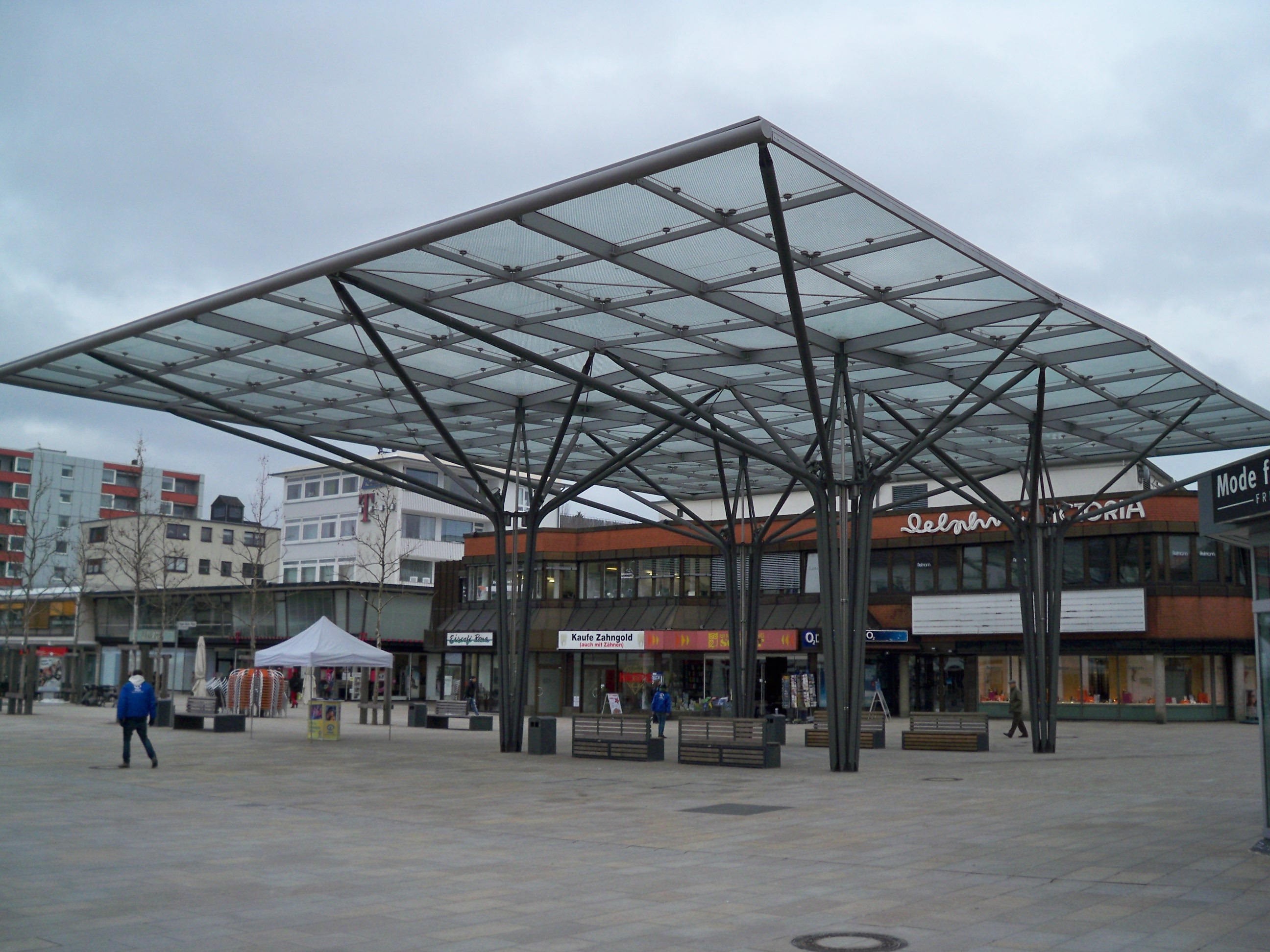 Wolfsburg, Lower Saxony, centre of Porschestraße (Hugo-Bork-Platz) with glass roof